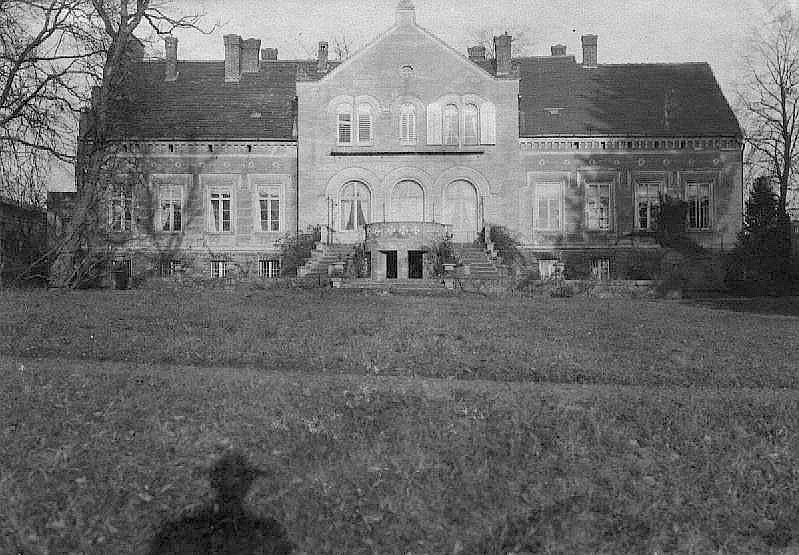 Photo of the Linówko (Klein Lienichen) estate